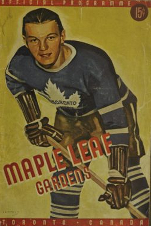 Wally Stanowski, Toronto Maple Leafs